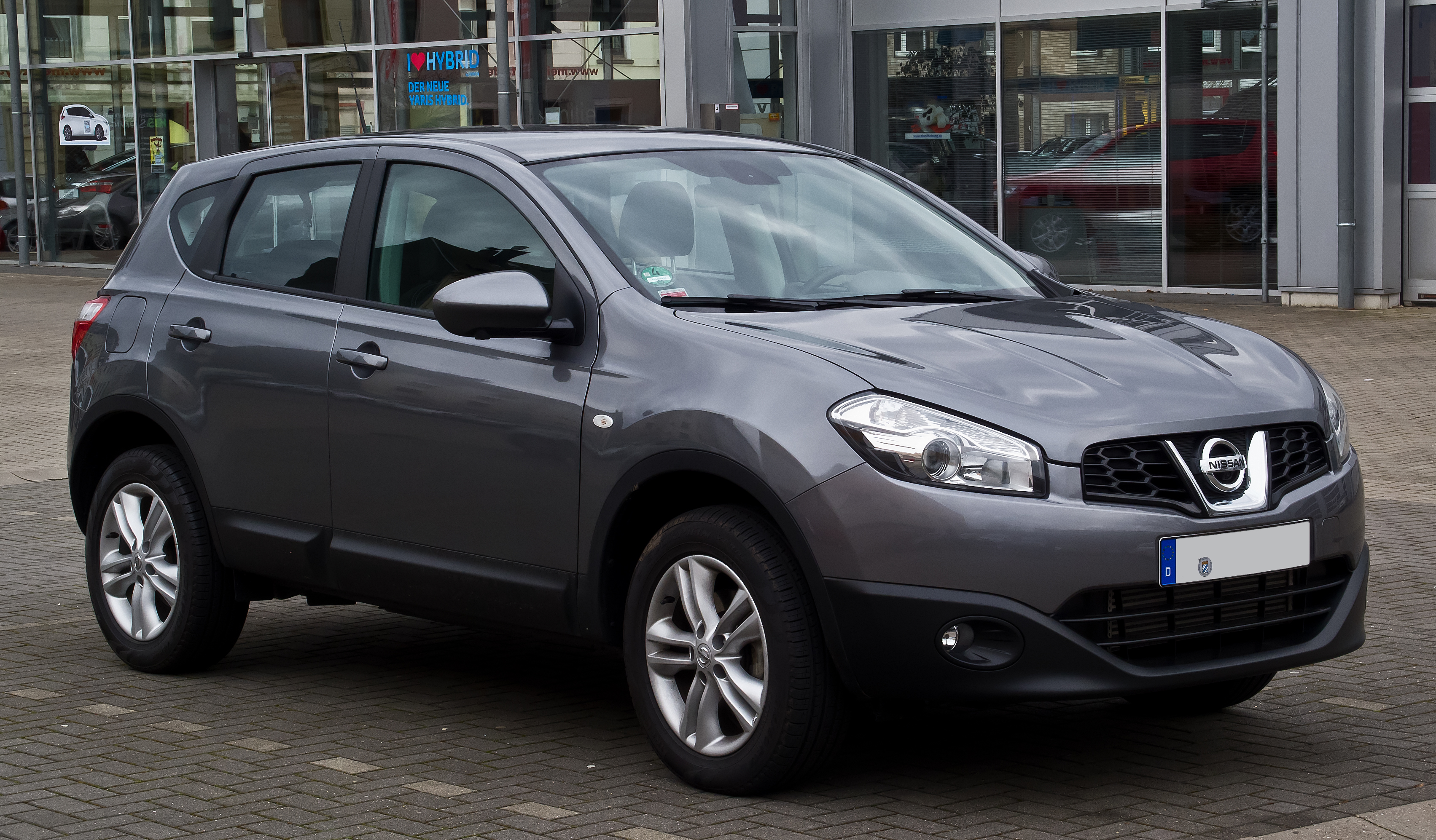 Nissan Qashqai (Facelift)